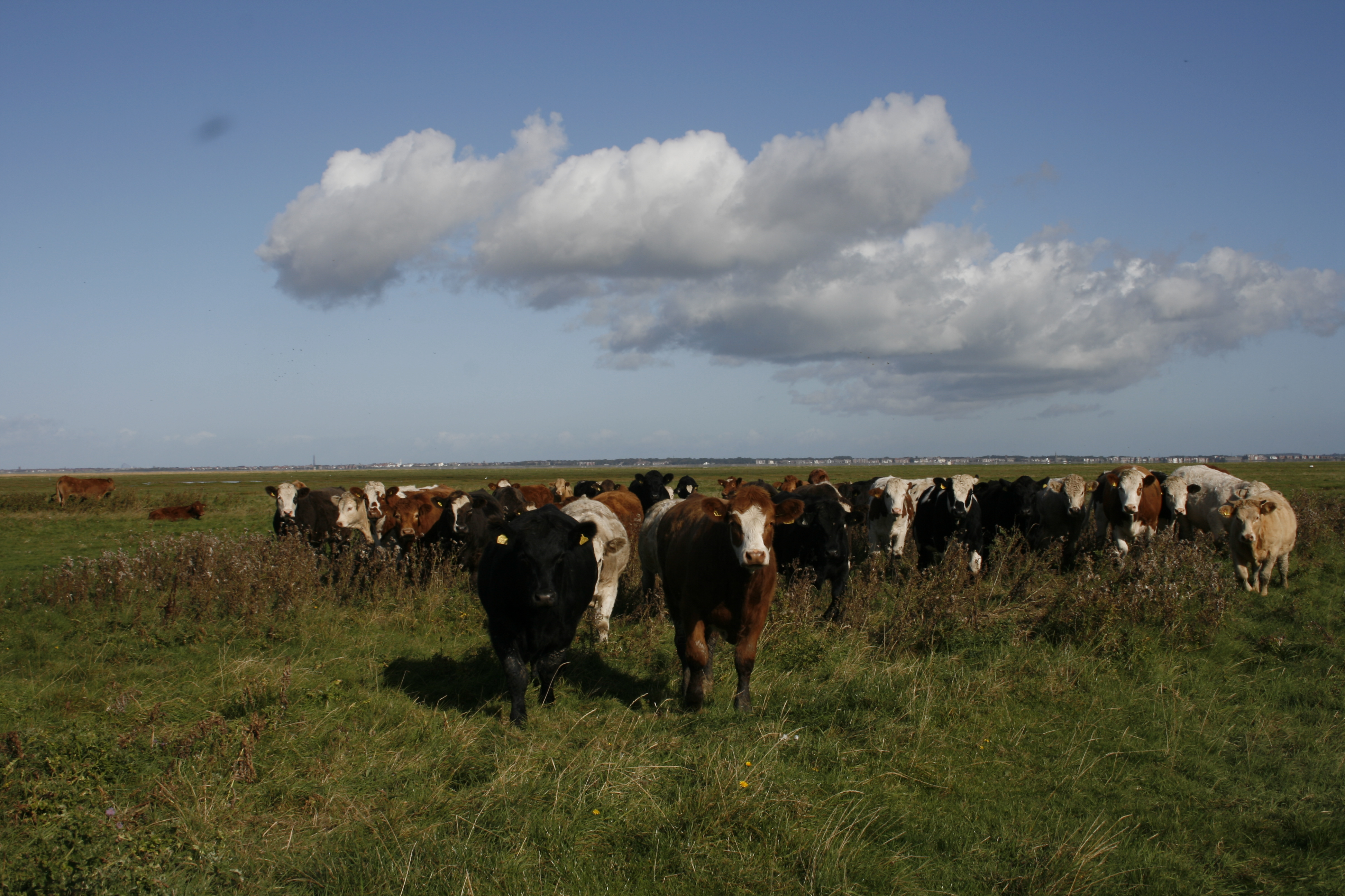 Cattle grazing on the saltmarshes of the Ribble Estuary near Banks,Lancashire, England.